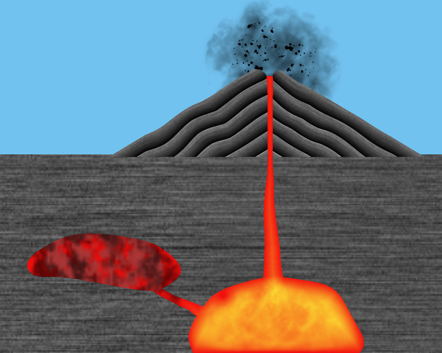 This JPG graphic was created with GIMP. Igneous rock illustration, language neutral with no text. Information for this image can be found in the book: Jorden - Illustrerat uppslagsverk/sid:80 /Förlag: Globe förlaget,2005,/ ISBN 91-7166-020-8 /Orginal title: Earth (ISBN 1-4053-0018-3)(2003 Doring Kindersley)